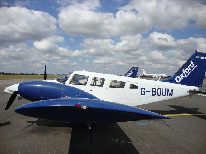 A Piper PA-34 Seneca light aircraft belonging to the Oxford Aviation Academy on the apron of London Oxford Airport, Oxfordshire, UK.